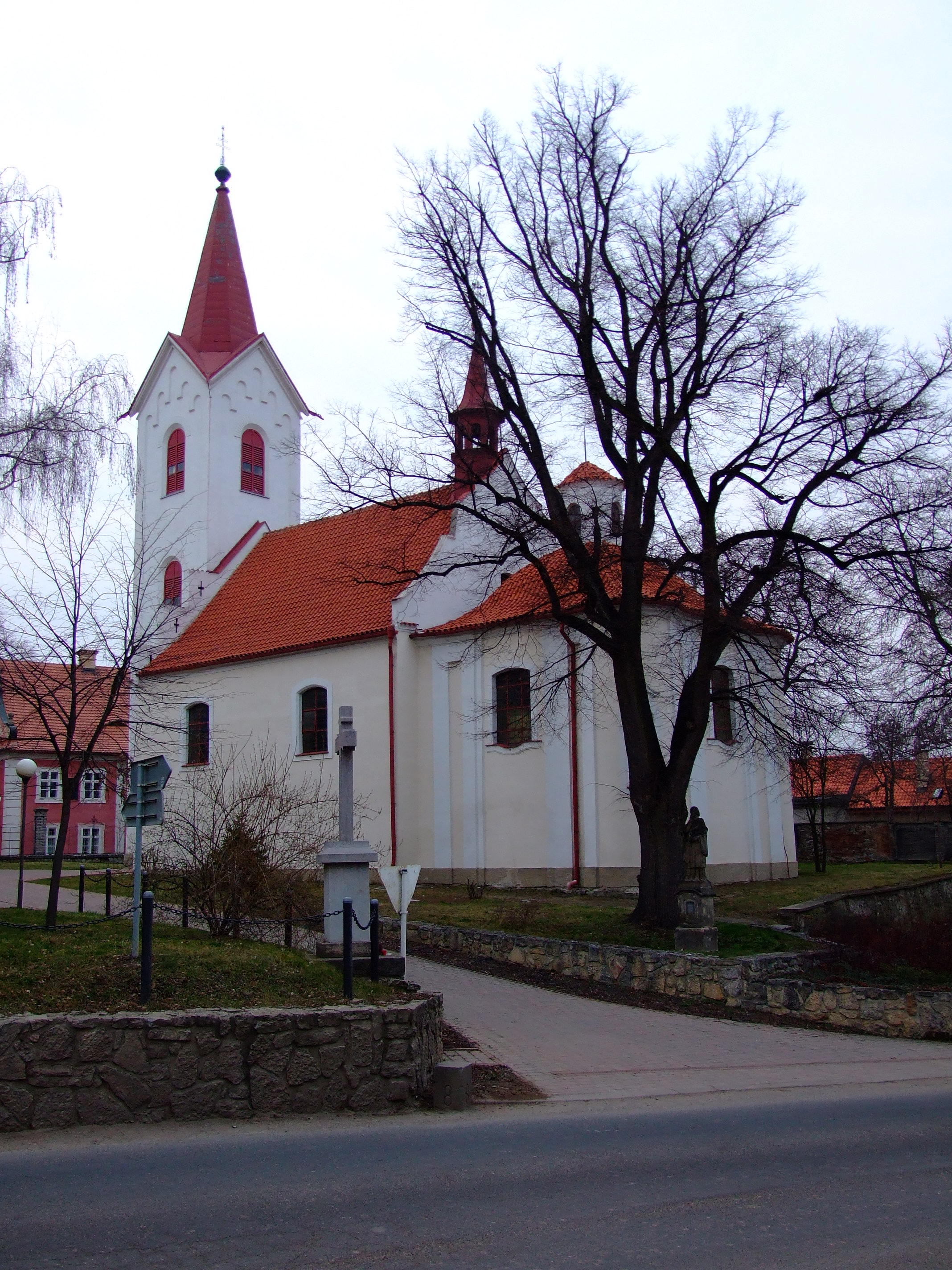 Church of Beheading of St John the Baptist in Ořech village, Prague-West District.